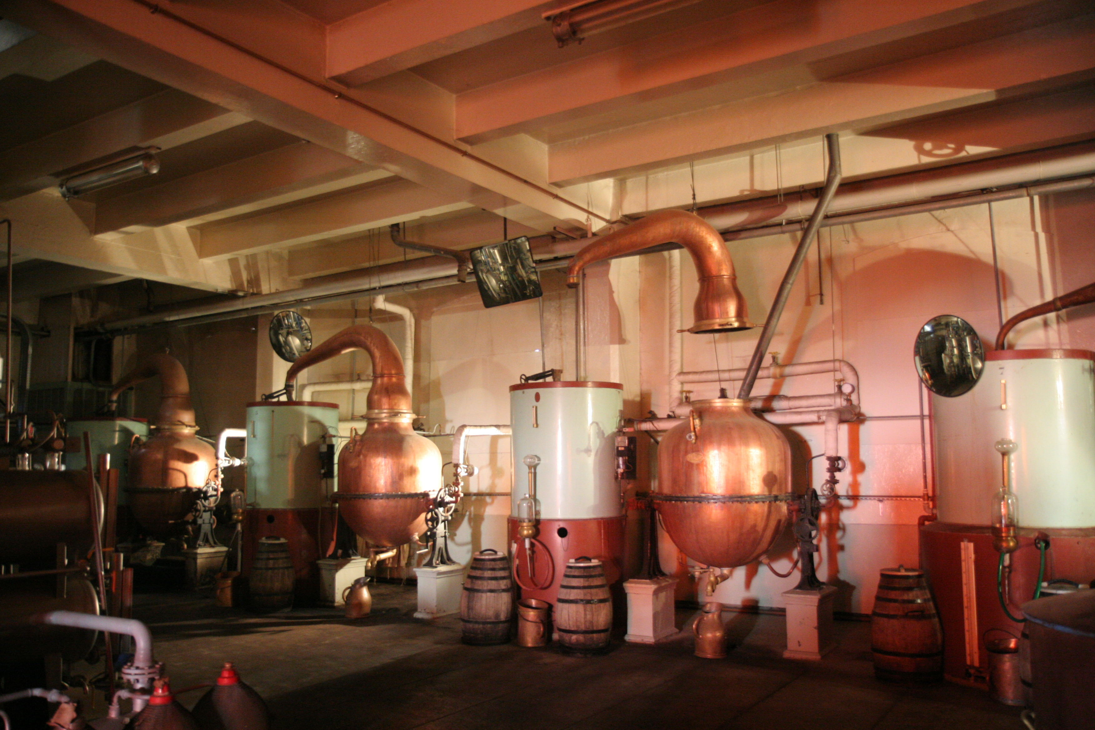 Old-style pot stills of the Chartreuse (no longer in use for regular production)